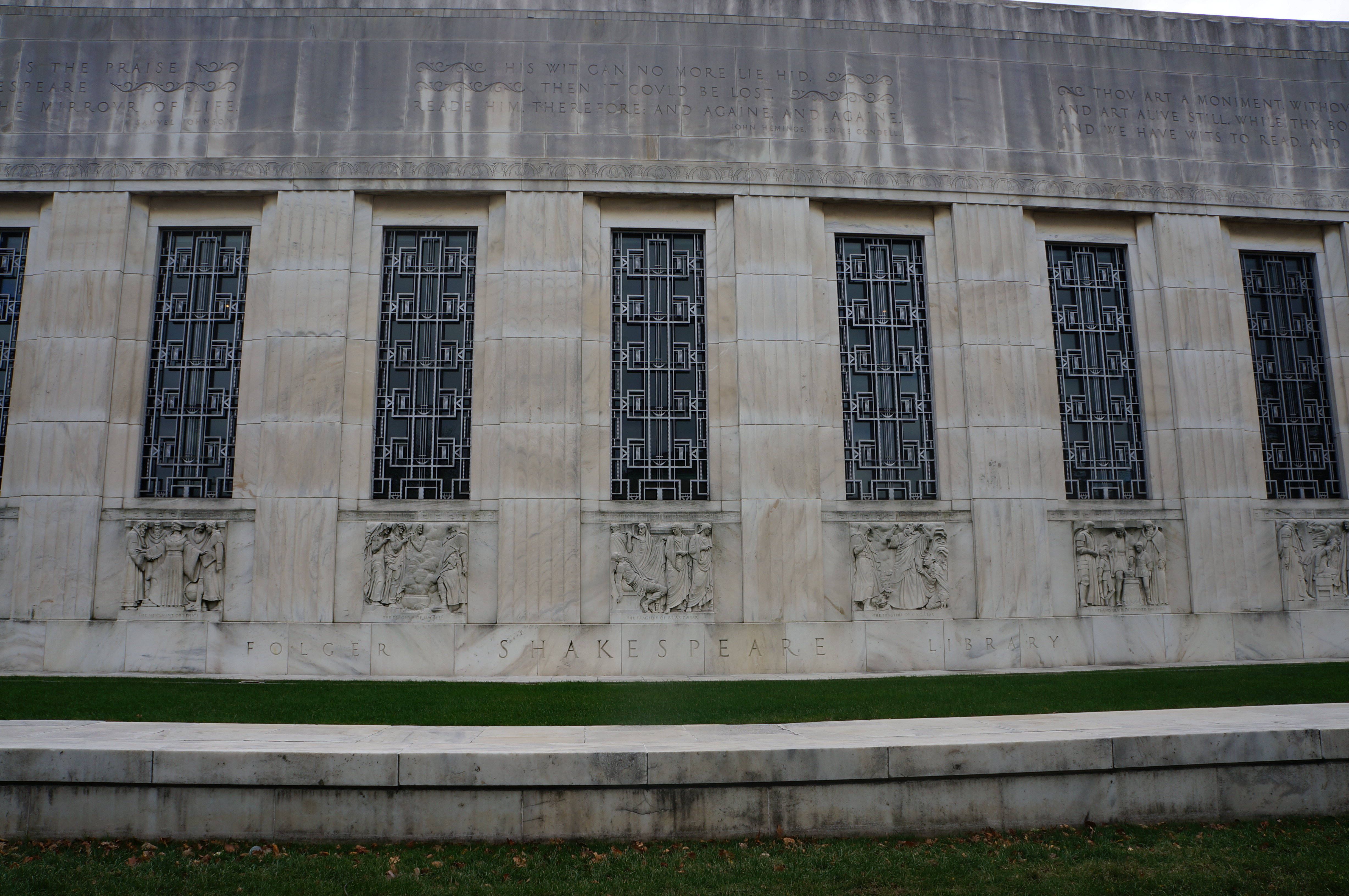 Folgers Shakespeare theater in Washington, DC, USA